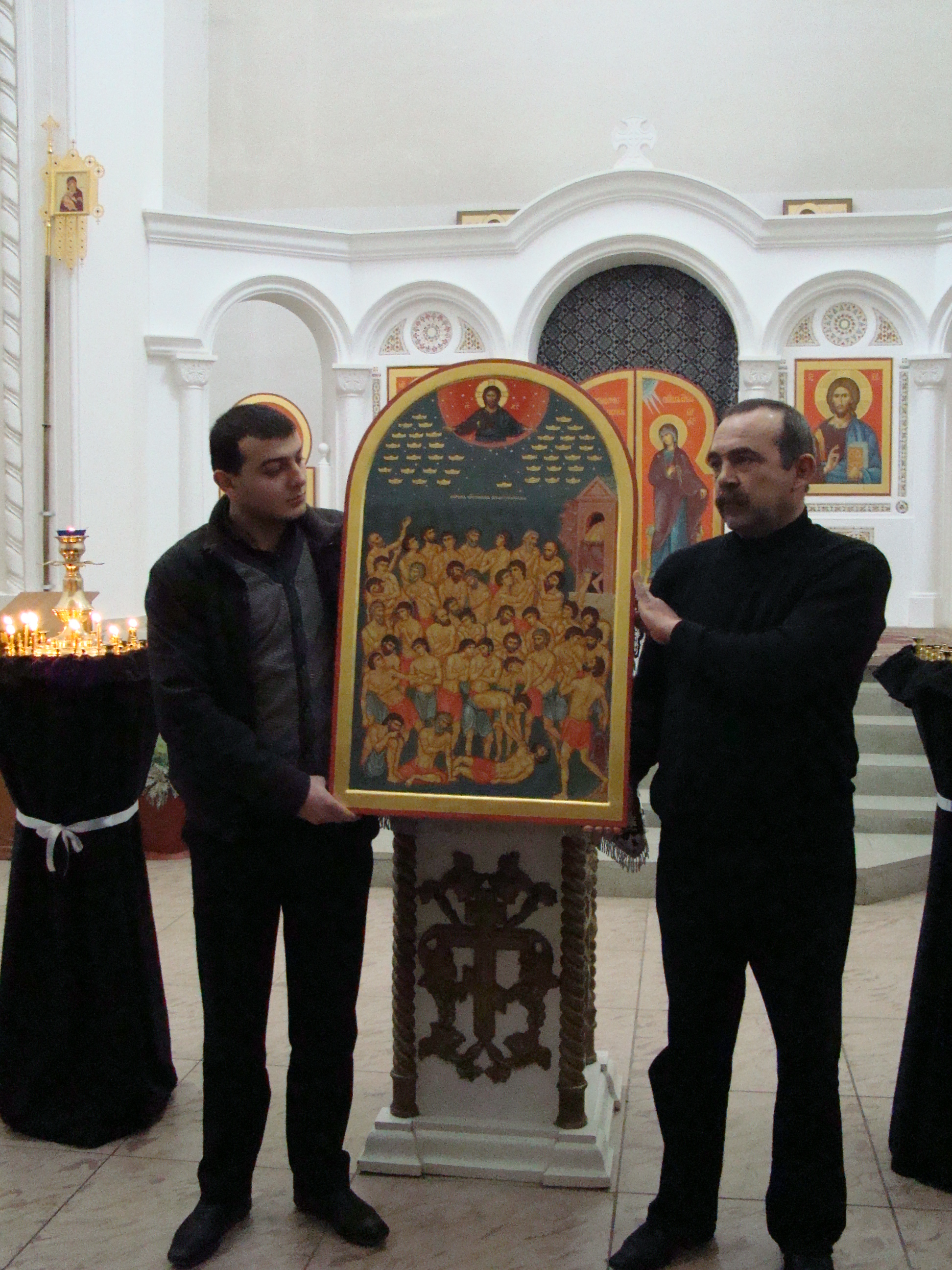 Armenian-Russian church relations